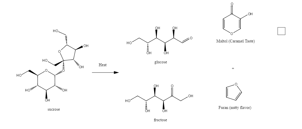 Example reaction of how table sugar (sucrose) caramelizes as a result of heat. The resulting substance is a brown nutty flavor.